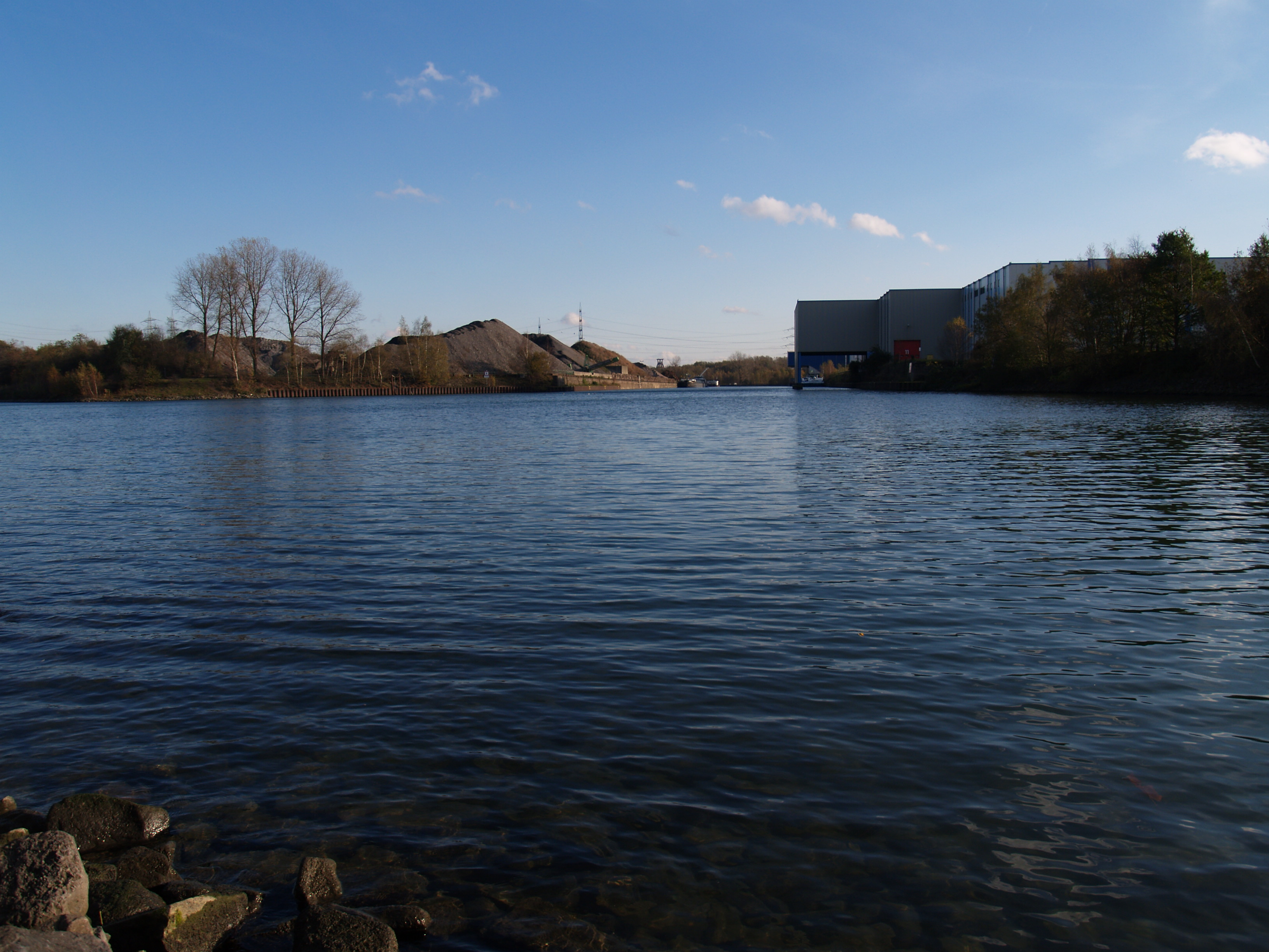 Port Grimberg at Rhein-Herne-Kanal